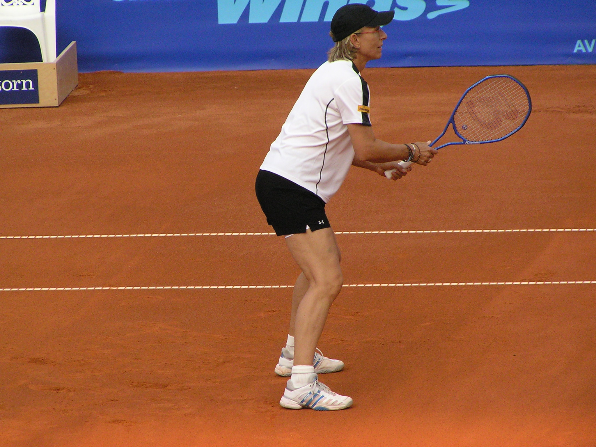 Martina Navrátilová ! Photo taken from ECM Prague Open 2006 ( - Prague, May 2006.